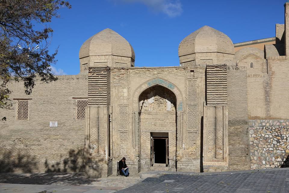 Bukhara city sights